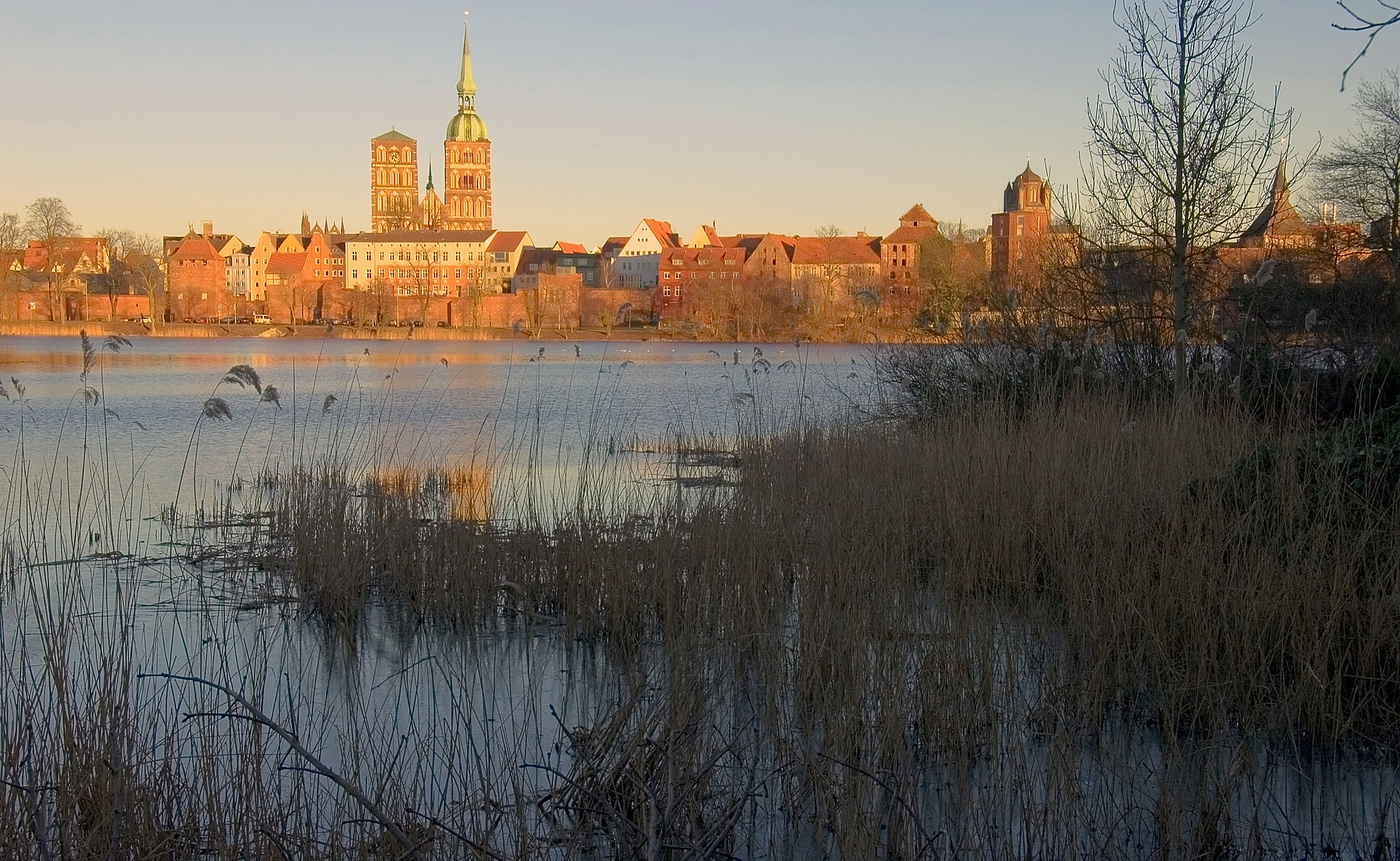 Nikolaikirche and the old town of Stralsund in Nordvorpommern, Germany, in the late afternoon.